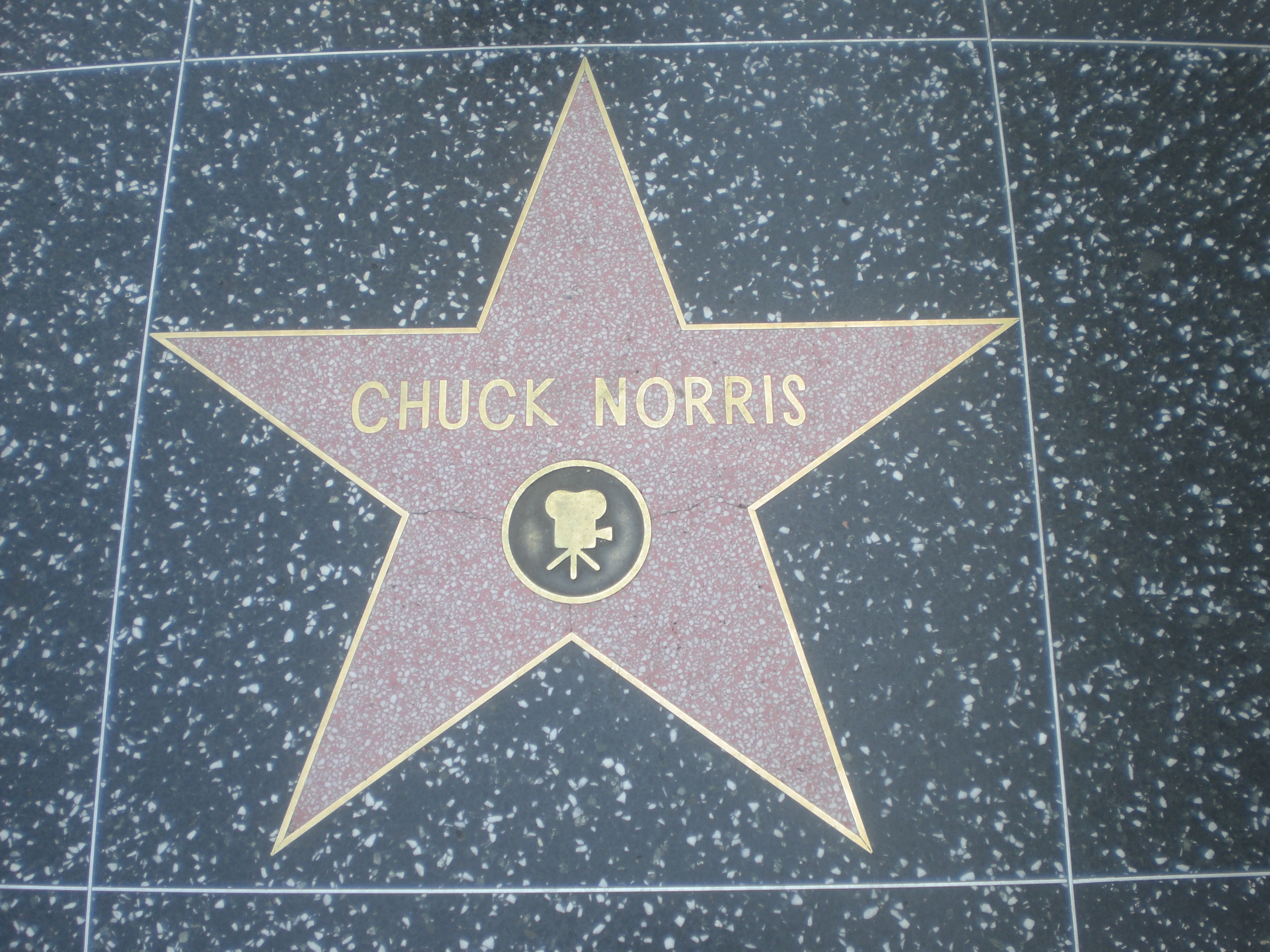 Chuck Norris' star on the Hollywood Walk of Fame